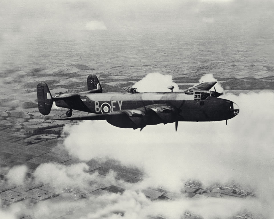 A Halifax B Mark II Series 1A (s/n LW235, EY-B) of No. 78 Squadron RAF based at RAF Breighton, Yorkshire (UK), in flight with triangular tail fins initially fitted to this version.